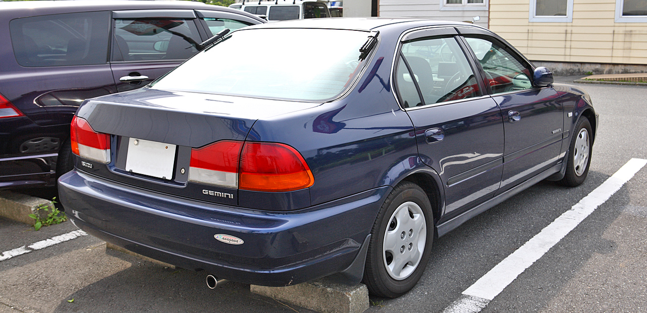 Isuzu Gemini 1.5 C ( MJ4 )